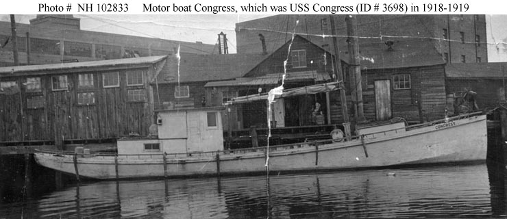 Fishing vessel Congress, which later served as United States Navy patrol boat USS Congress (ID-3698), possibly at the time of her inspection by the 5th Naval District on 17 May 1918